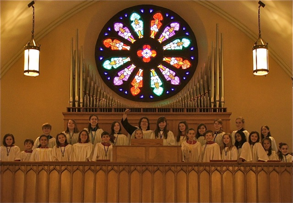 On of the choirs in the loft of Grace Episcopal Church, Madison, New Jersey